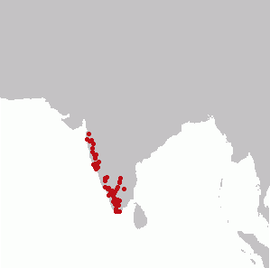 Distribution map of Nilgiri wood pigeon